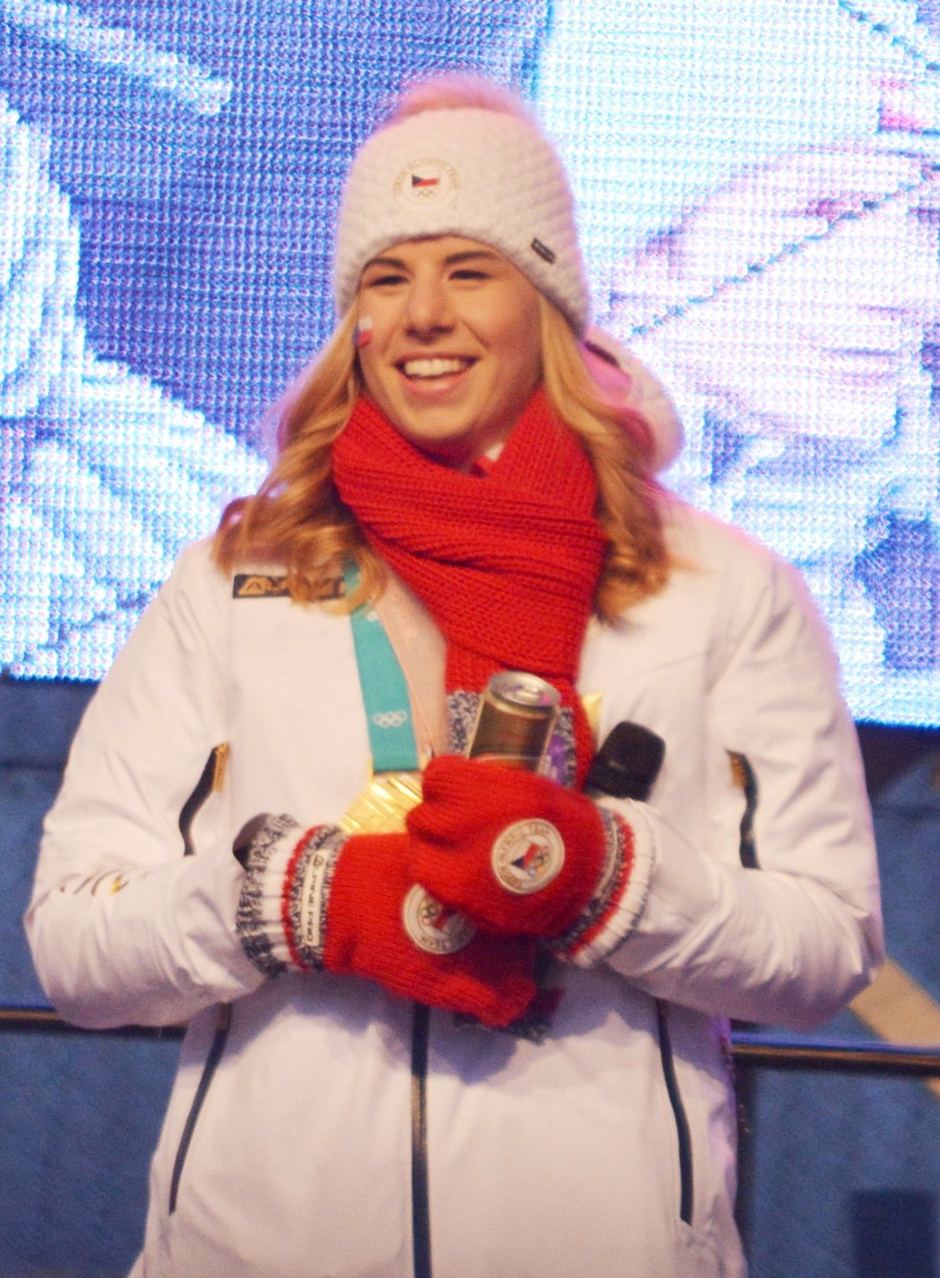 Ester Ledecká, Czech snowboarder and alpine skier